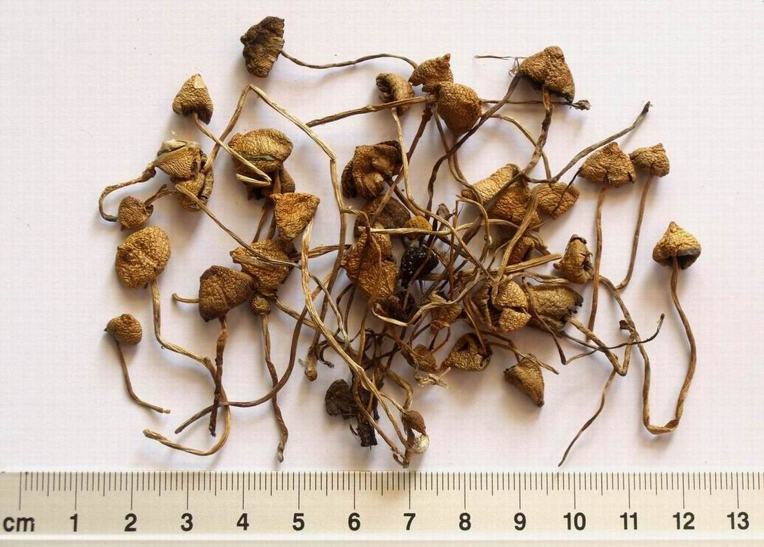 Psilocybe semilanceata dry mushrooms